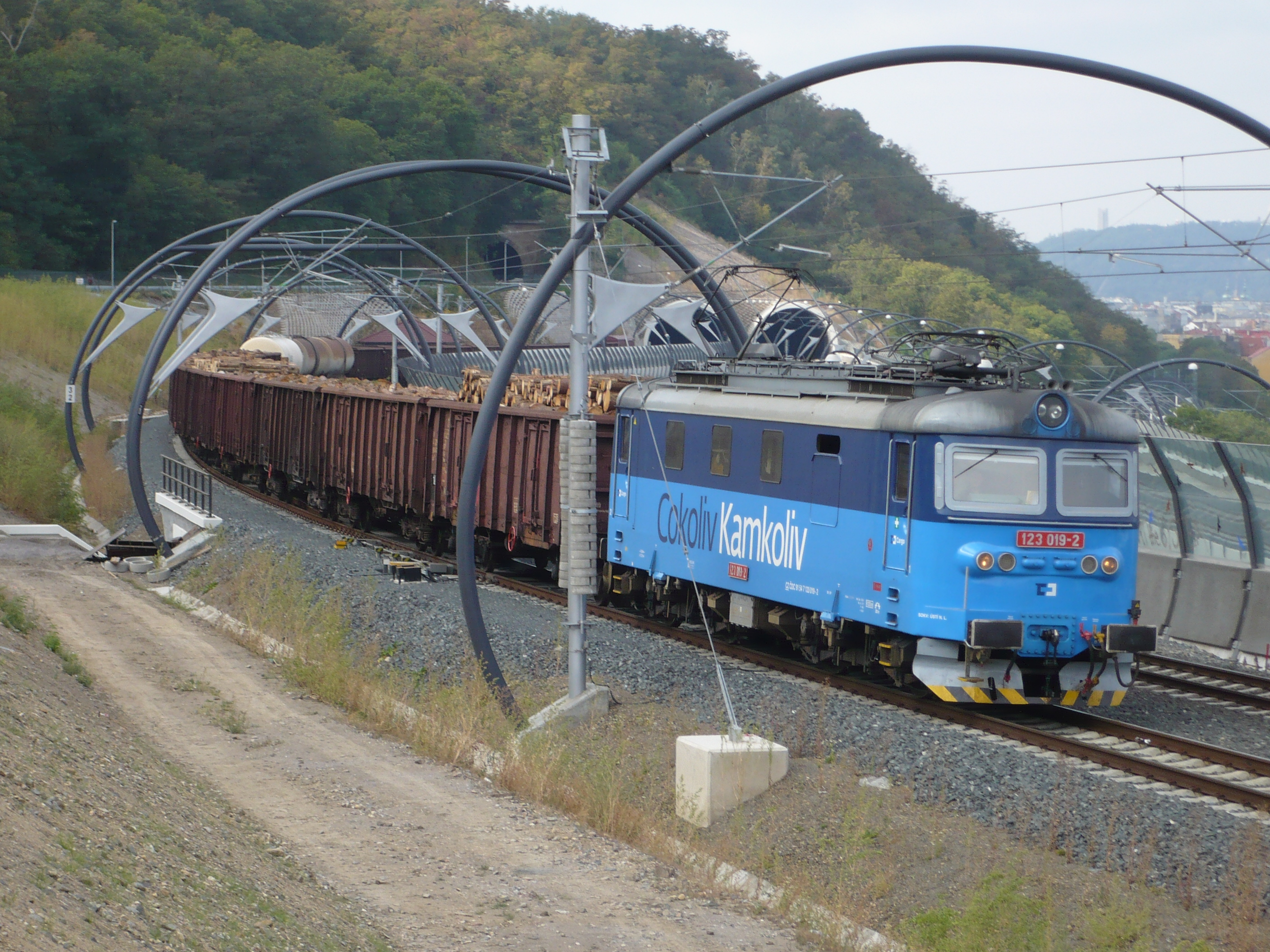 Locomotive 123 019-2 in ČD Cargo livery ("Anything Anywhere"), New Connection, Prague